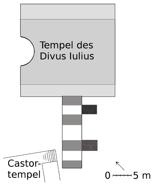 Plan showing the situation with the tripple arched arcus Augusti south of the temple of divus Iulius